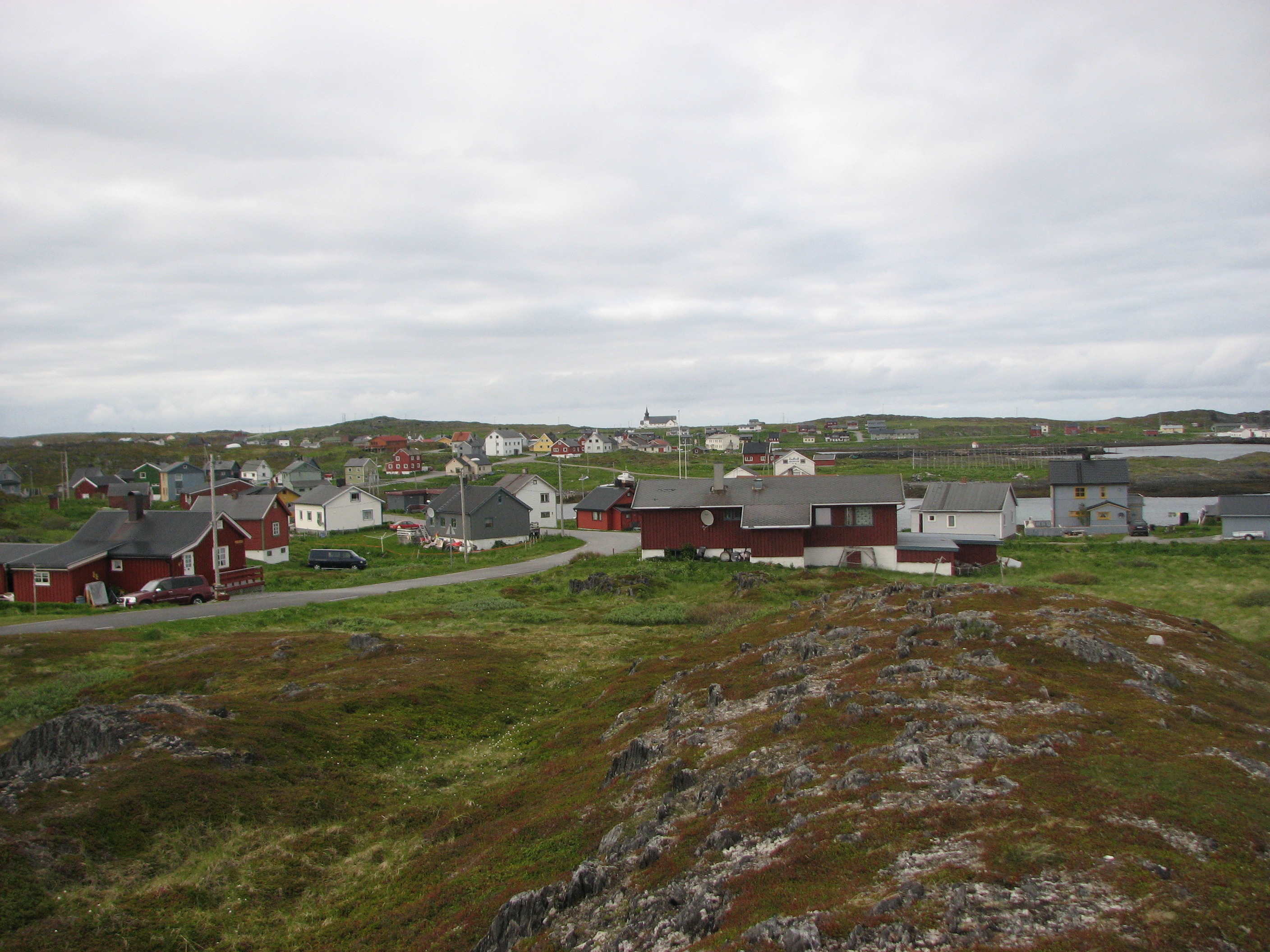 Gamvik, Norway View from south